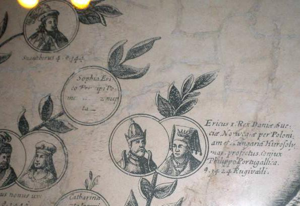 Old print in Darłowo Castle with genealogical information about King Eric the Pomeranian of Scandinavia, as released by image creator Ristesson;Place: Darłowo, Poland